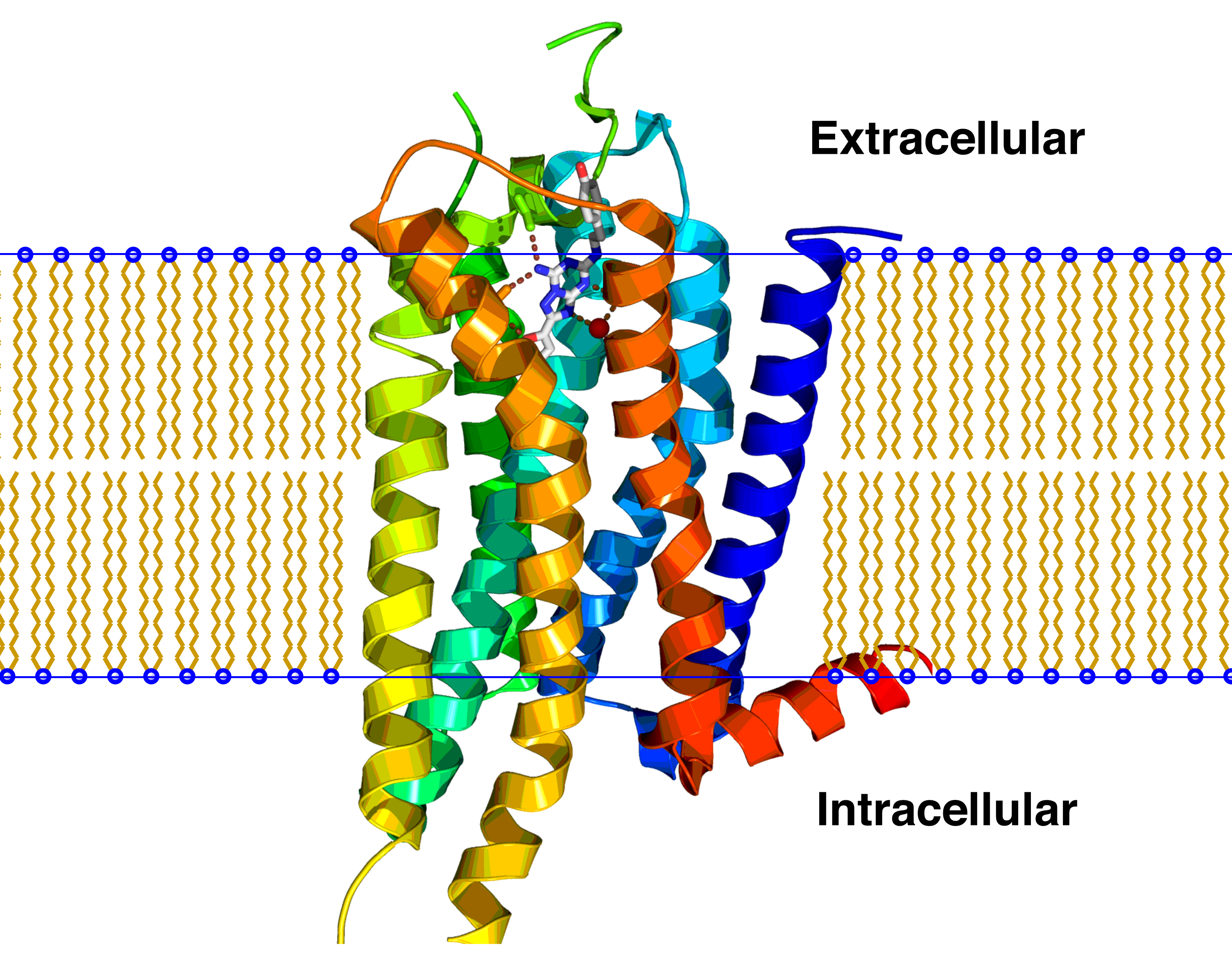 Crystallographic structure of the Adenosine A2A receptor based on the PDB: 3EML​ coordinates